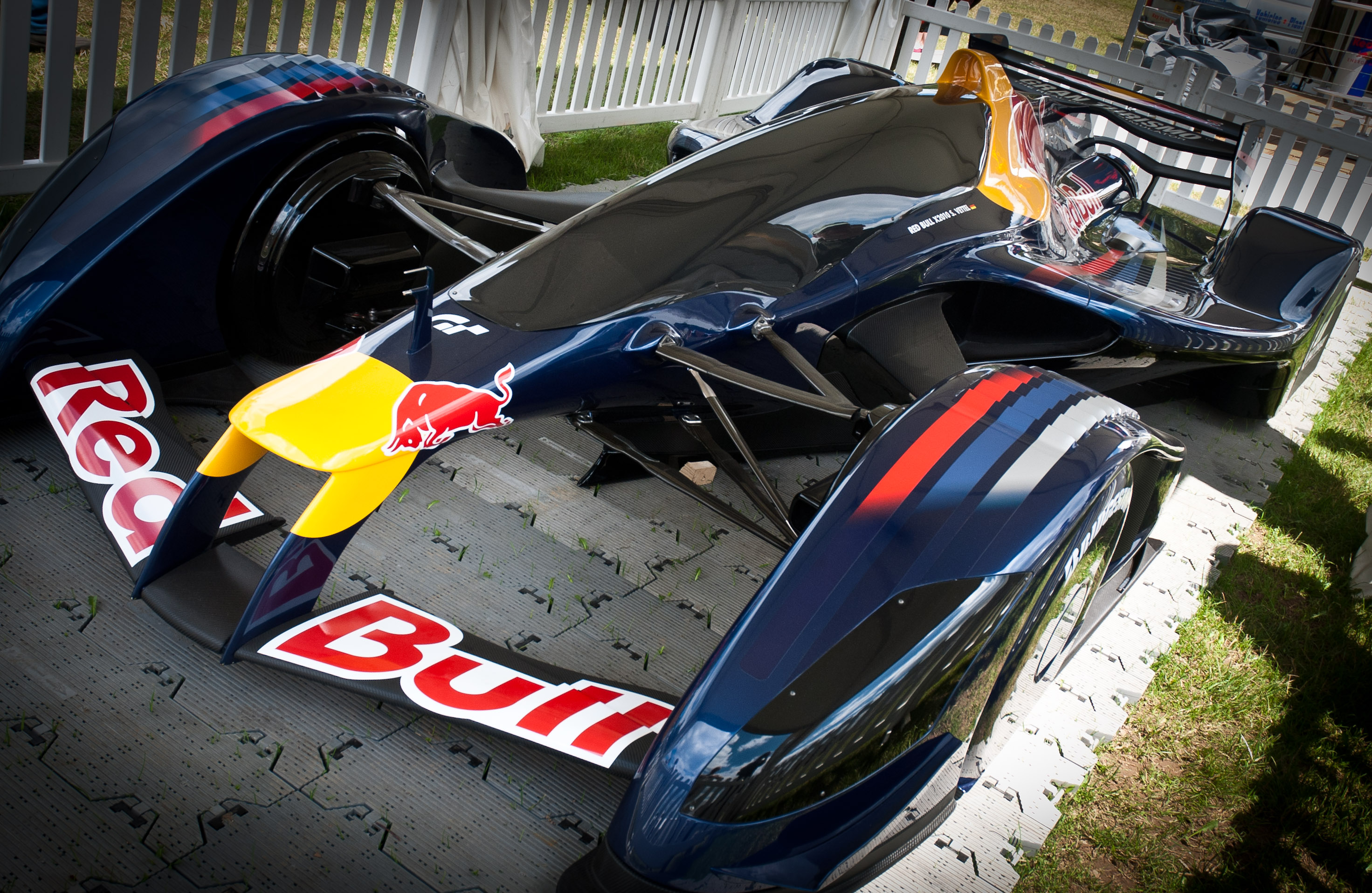 Goodwood Festival of Speed 2011: Red Bull X2010